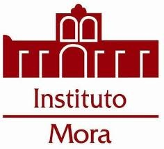 Instituto de Investigaciones Dr. Jose Maria Luis Mora